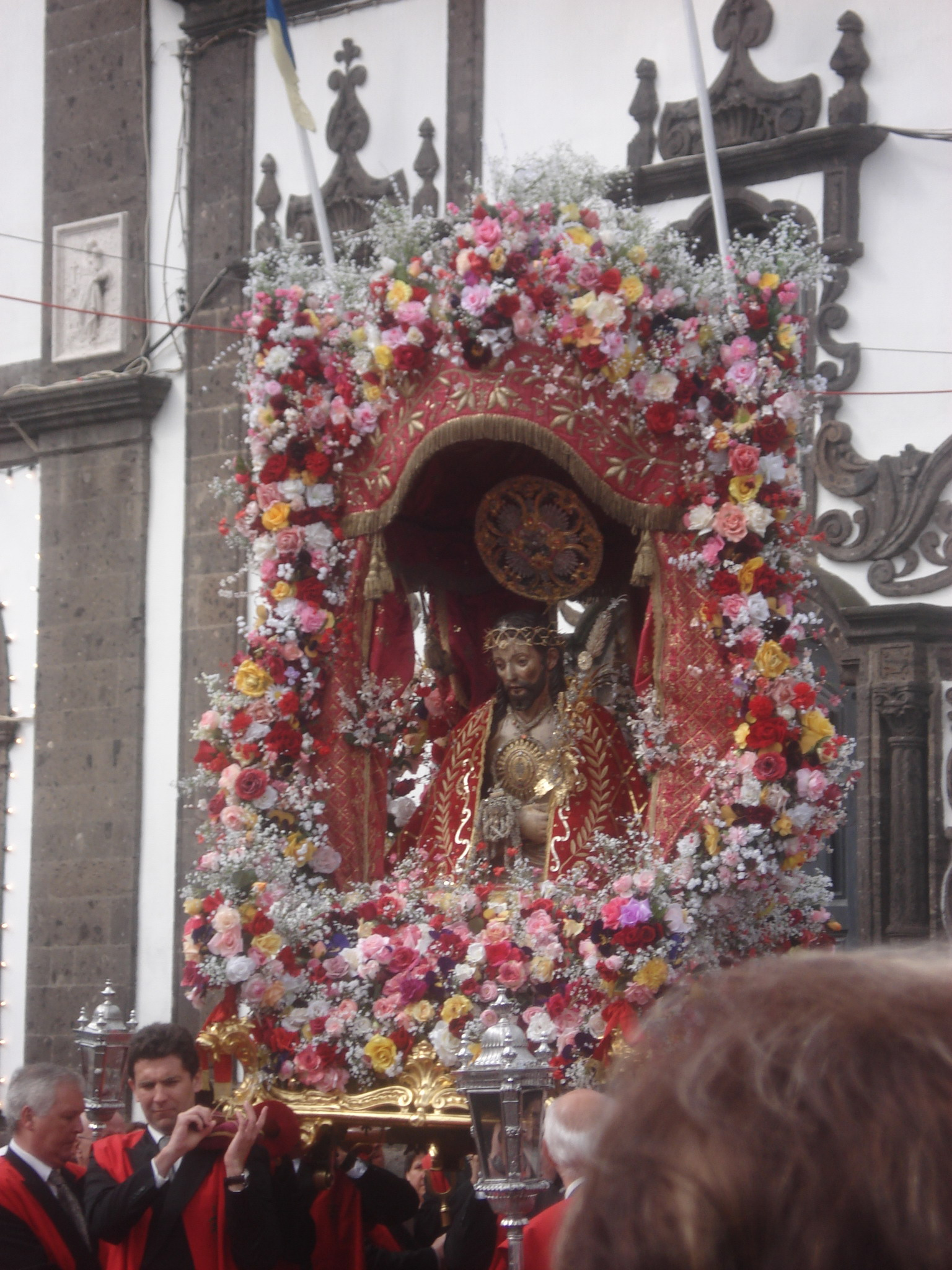 The image of Senhor Santo Cristo as it exits the Convent of Esperança for the Sunday procession, during the festival of Senhora Santo Cristo, in the municipality of Ponta Delgada (Azores), Portugal